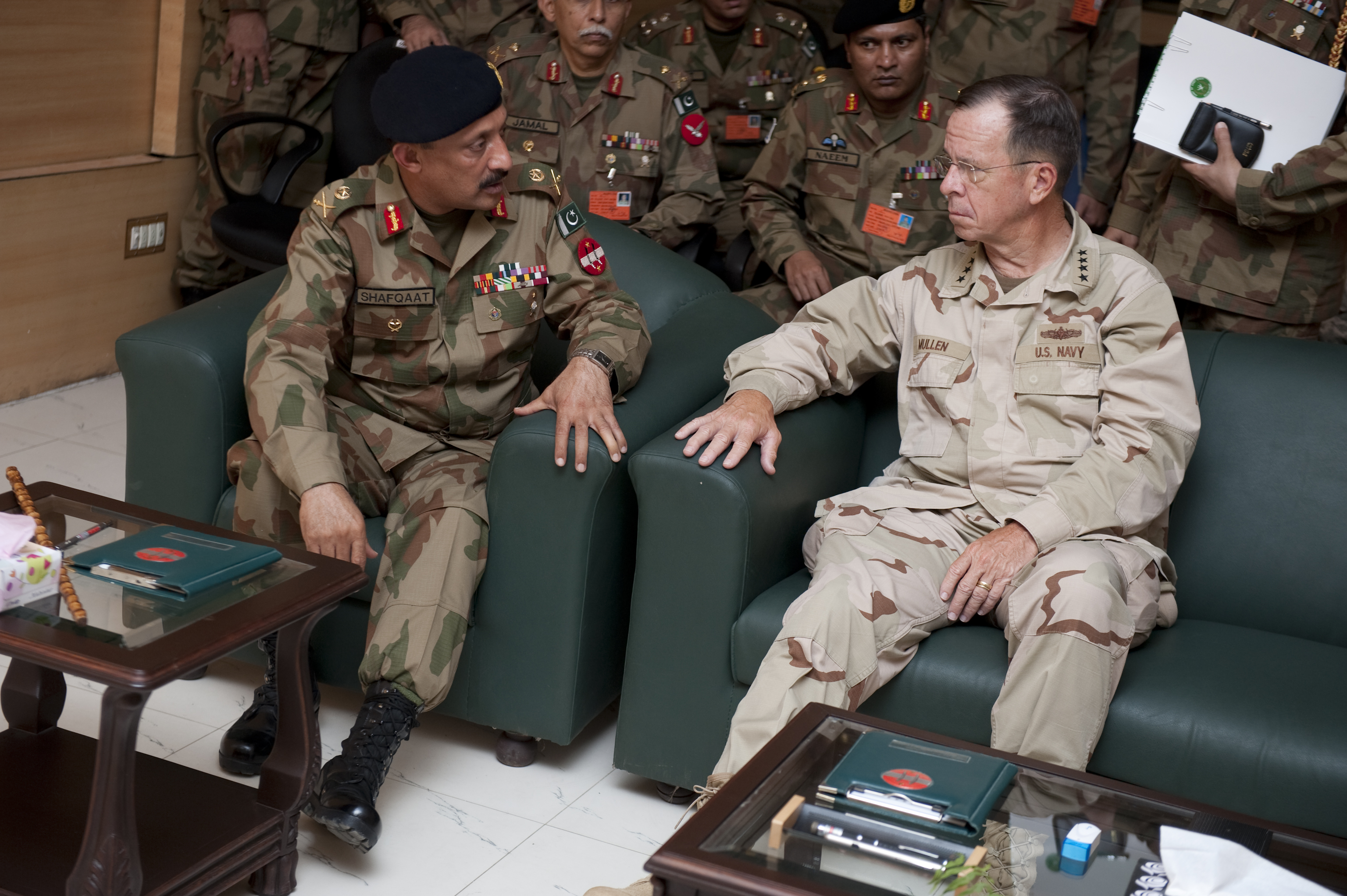 Chairman of the Joint Chiefs of Staff Navy Adm. Mike Mullen speaks with Pakistani army Lt. Gen. Ahmed Shafqaat, the commander of II Corps, in Multan, Pakistan, Sept. 2, 2010. Mullen is in Multan after touring regions of Pakistan devastated by floods with Pakistani Chief of Army Staff Gen. Ashfaq Parvez Kayani.